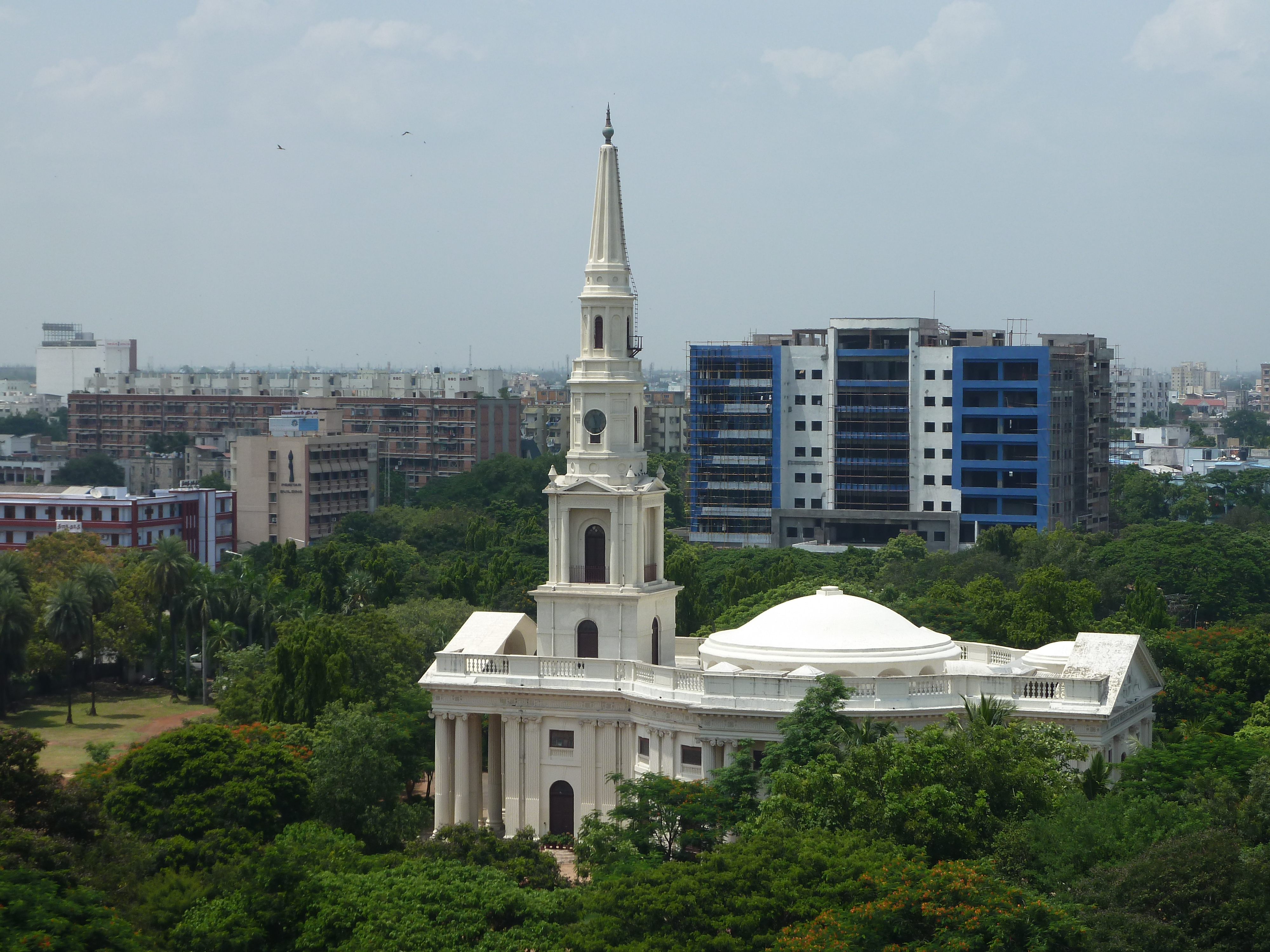 This church is located just near the Egmore Railway station, Chennai, India.